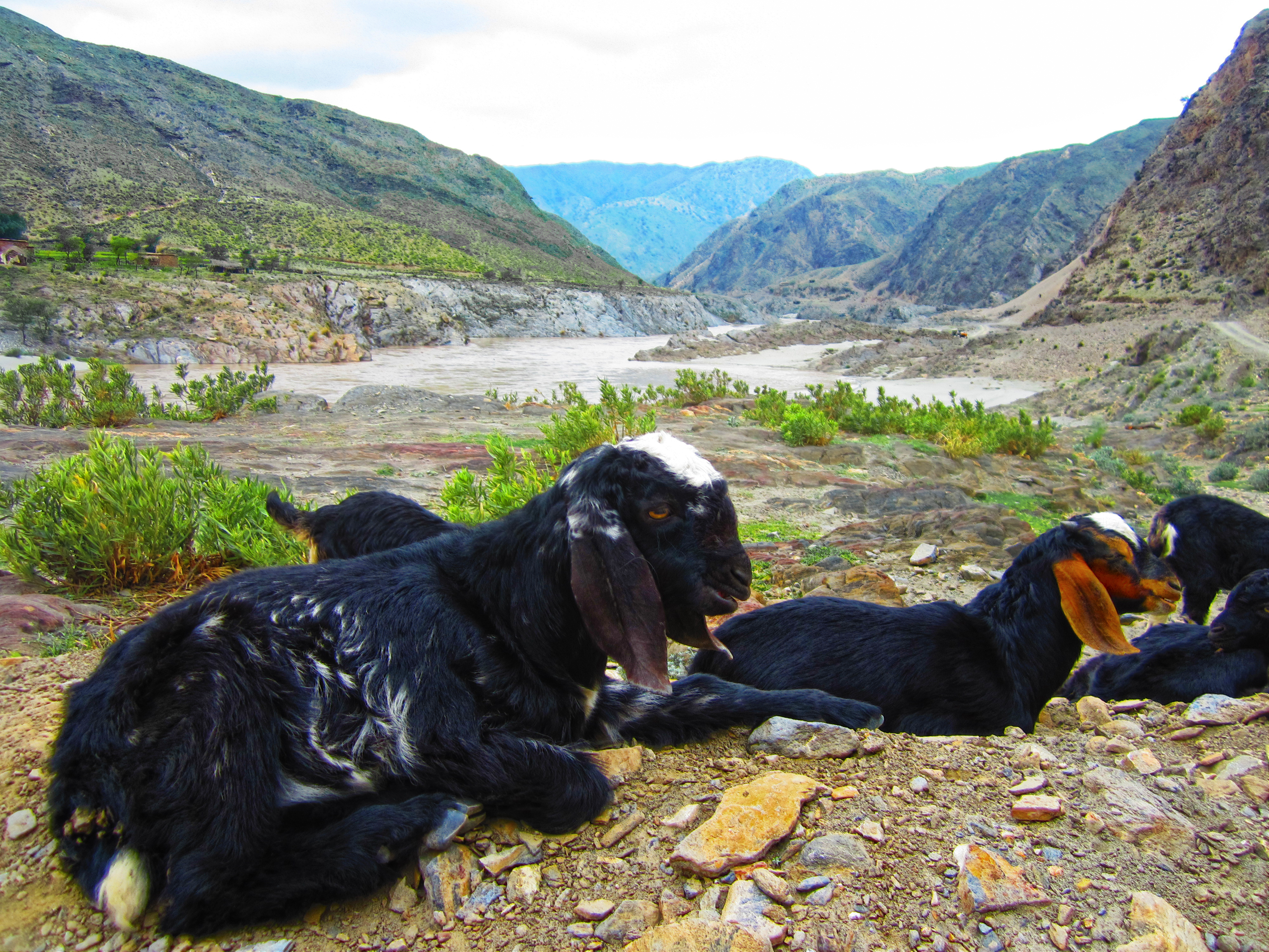 Jott Baba, Next to River Swat, Mohmand Agency FATA Khyber Pakhtunkhwa